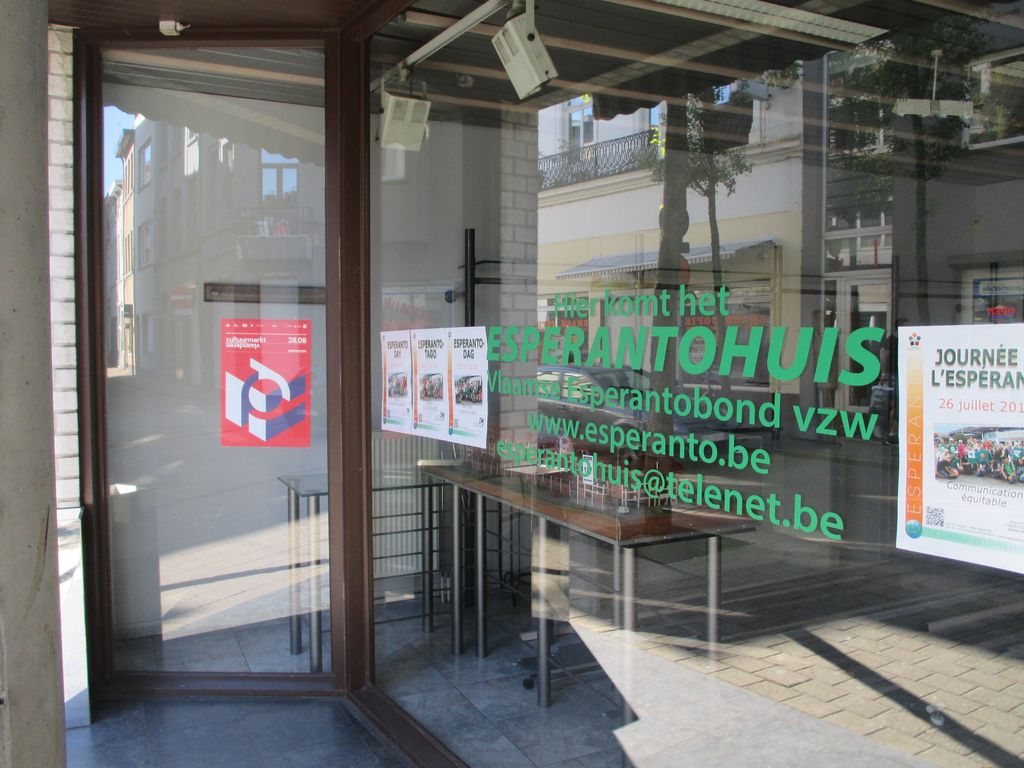 Announcing of the new Antwerp Esperanto House